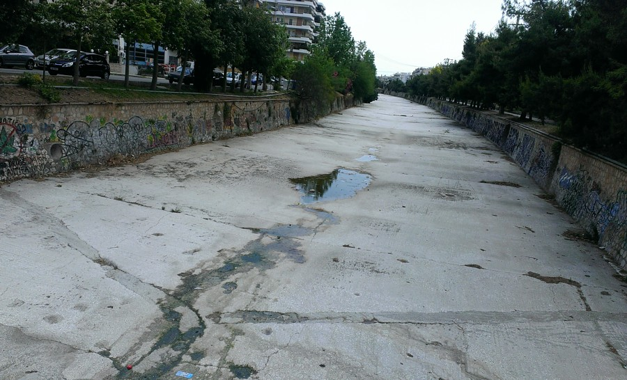 moschato